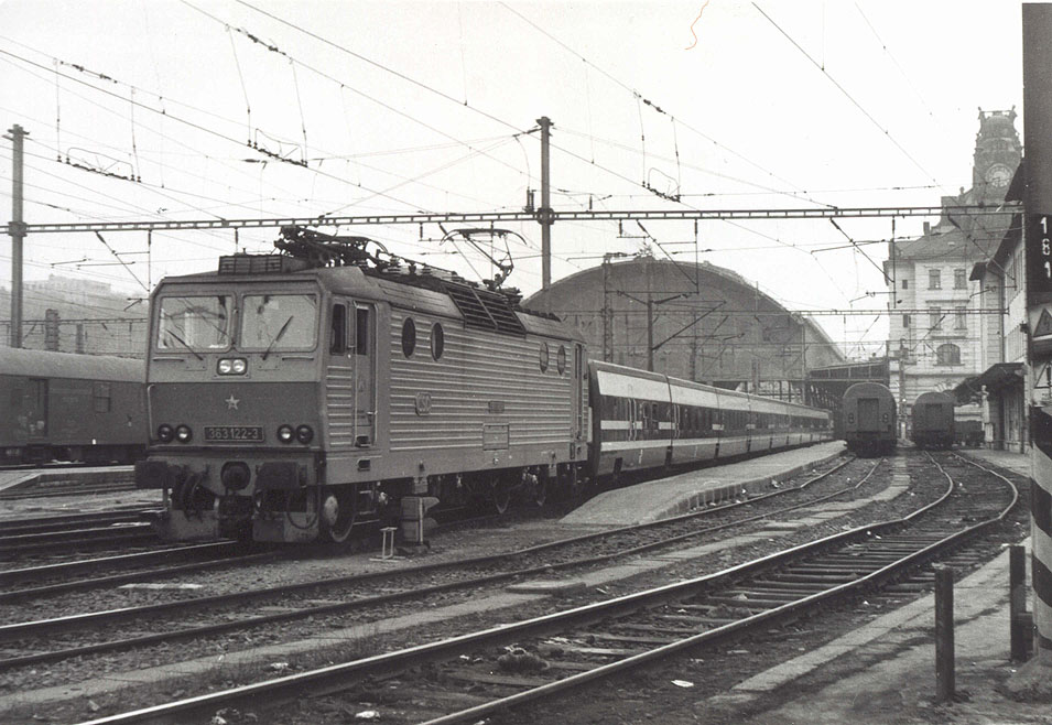 Talgo Pendular - Prague Main Station. It is hard to recognize blue and yellow livery of the locomotive on black and white photography.